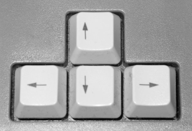 Picture of arrow keys of a PC keyboard